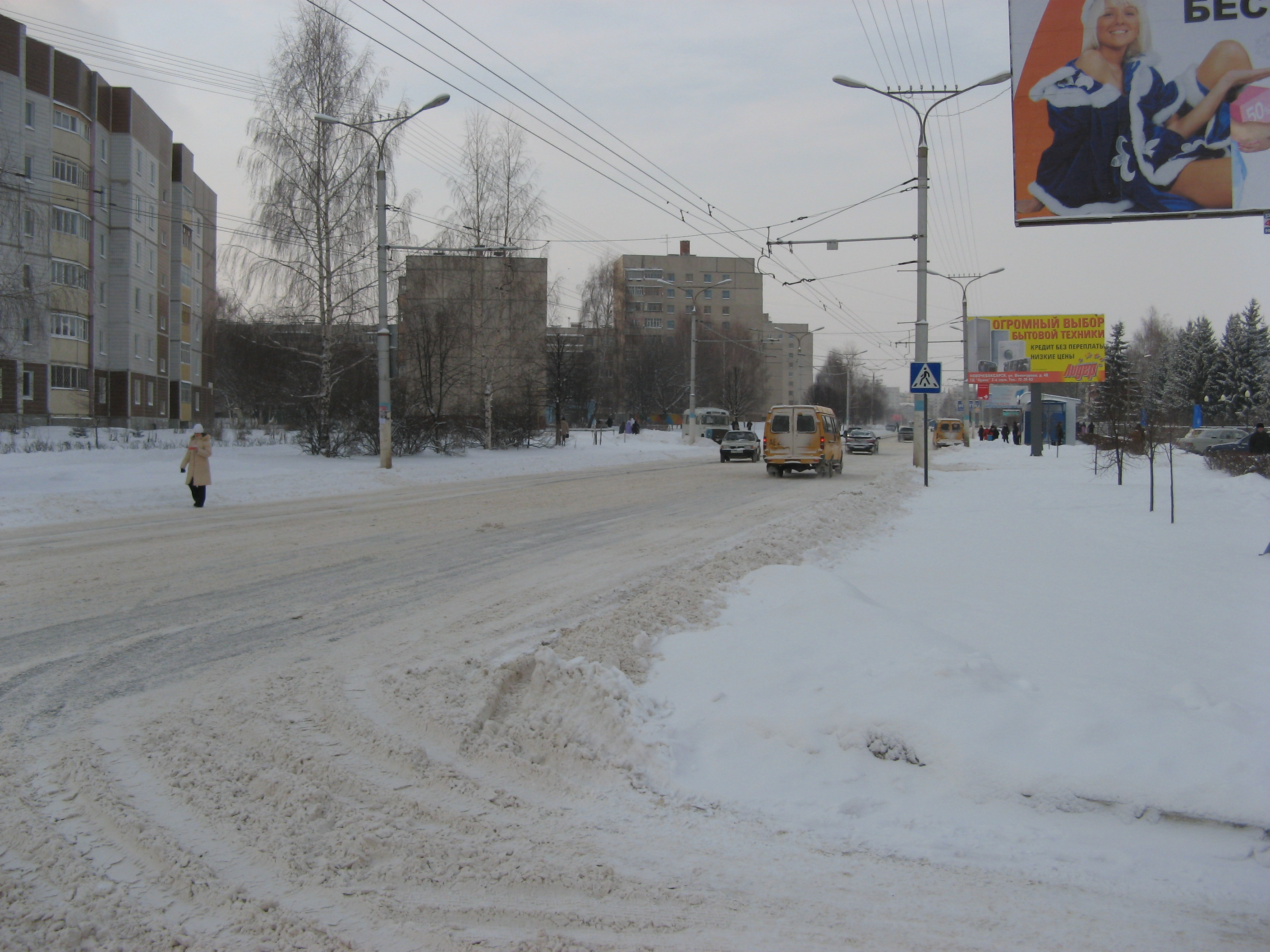 Winter on Vinokurova street. Russia.Novocheboksarsk